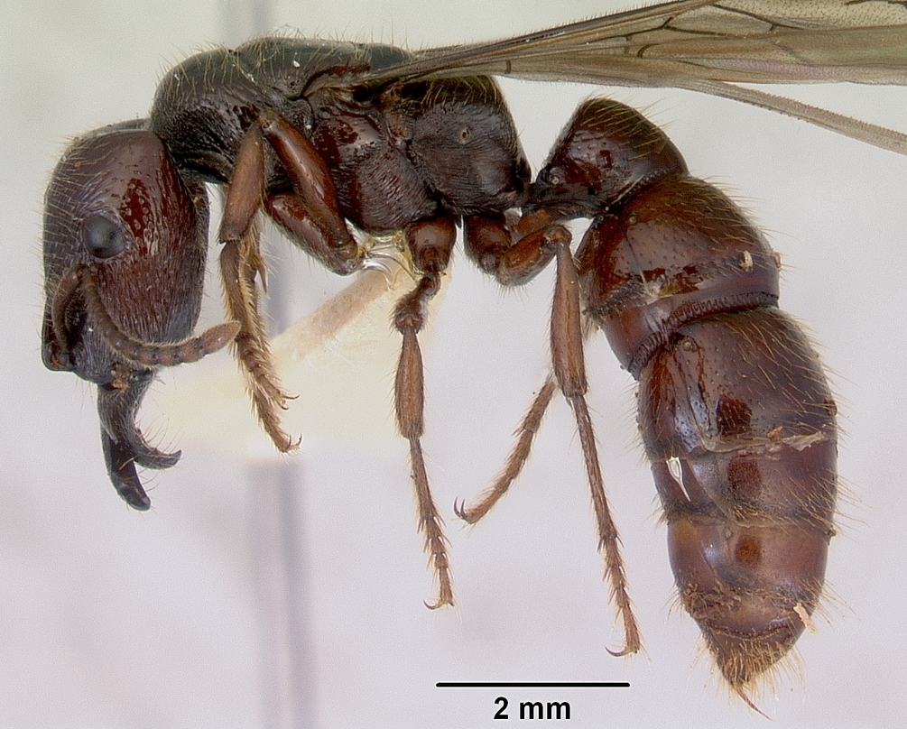 Profile view of ant Amblyopone australis specimen casent0172245.